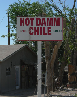 Author/Photographer Phil Nickell. Uploaded by permission of the Author.